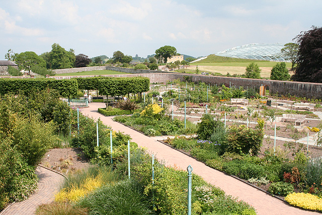 The National Botanic Gardens, Wales. The double walled gardens